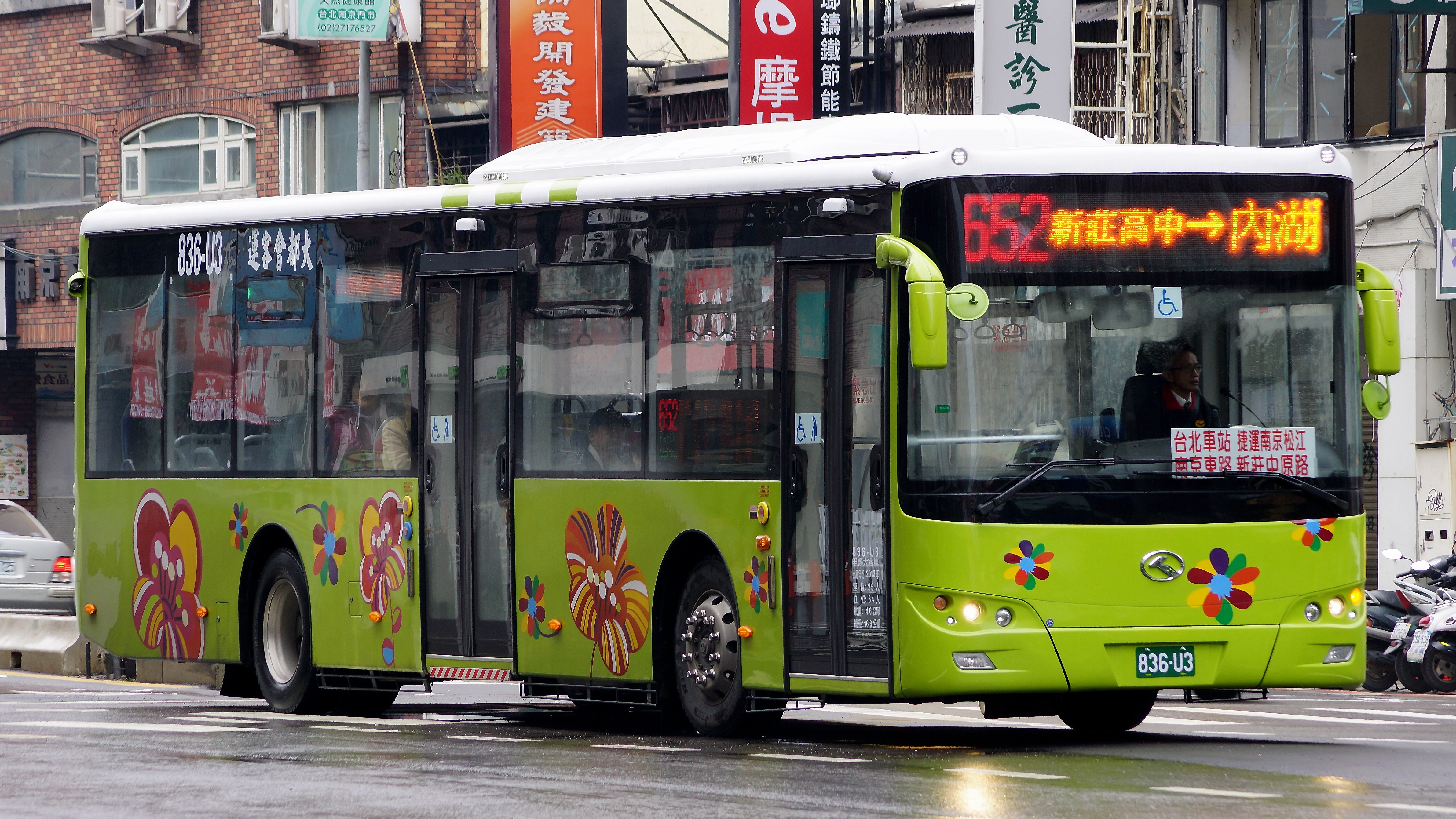 KINGLONG XMQ6120AGD5 of Metropolitan Transport Corp. 836-U3 on Taipei City Route 652.